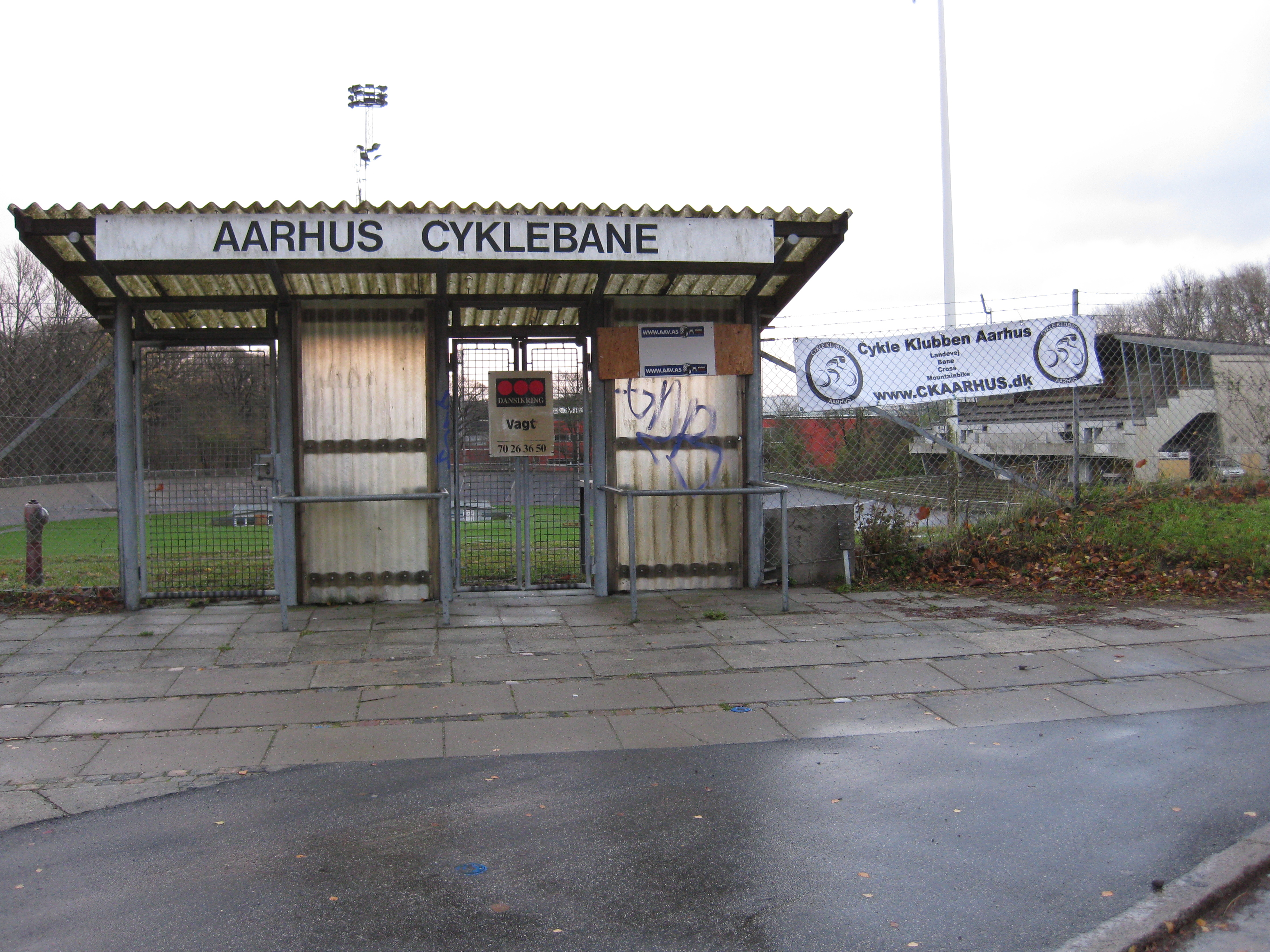 Entrance to Aarhus Cykelbane